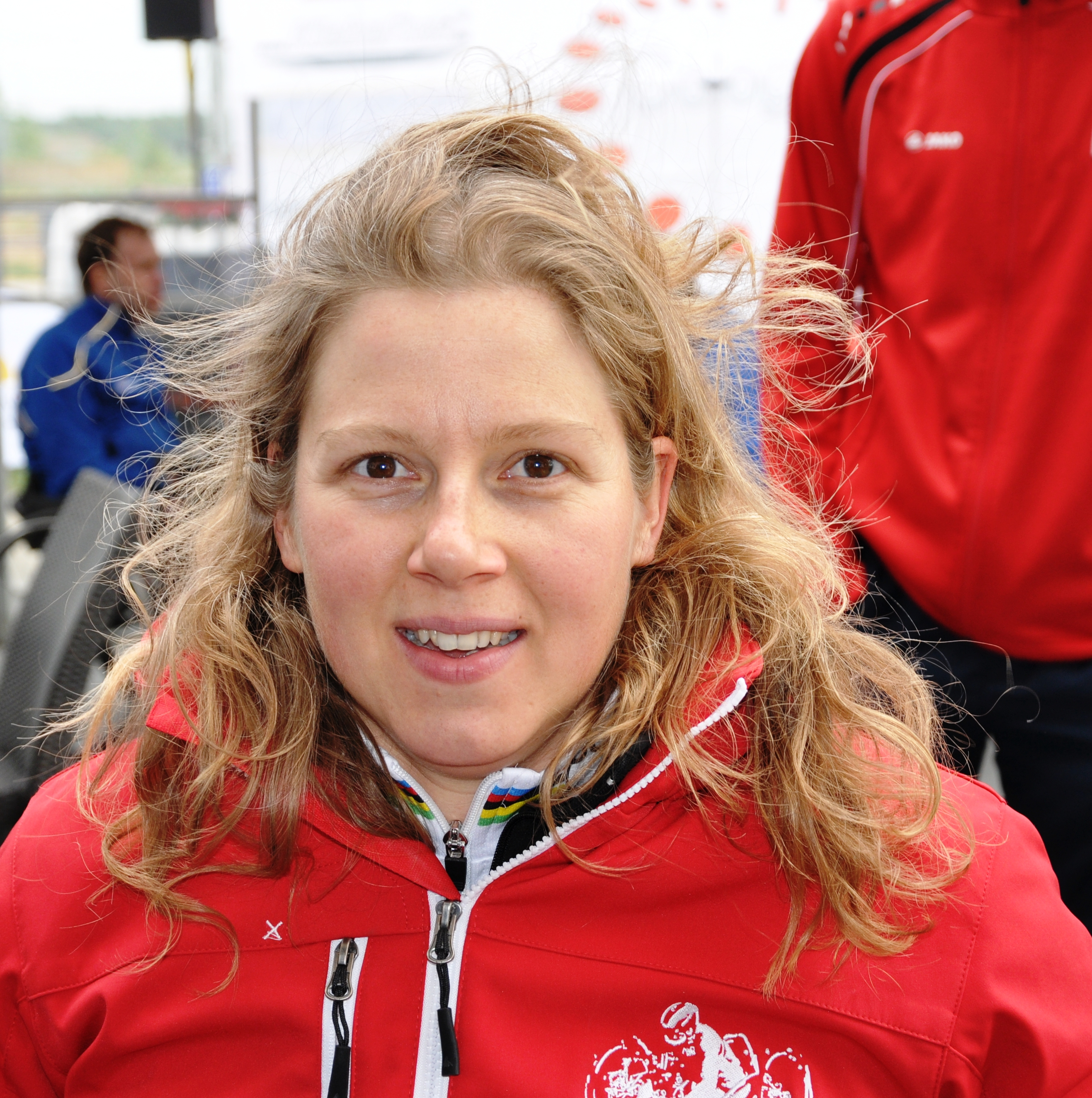 Laura de Vaan, Dutch para-cyclist